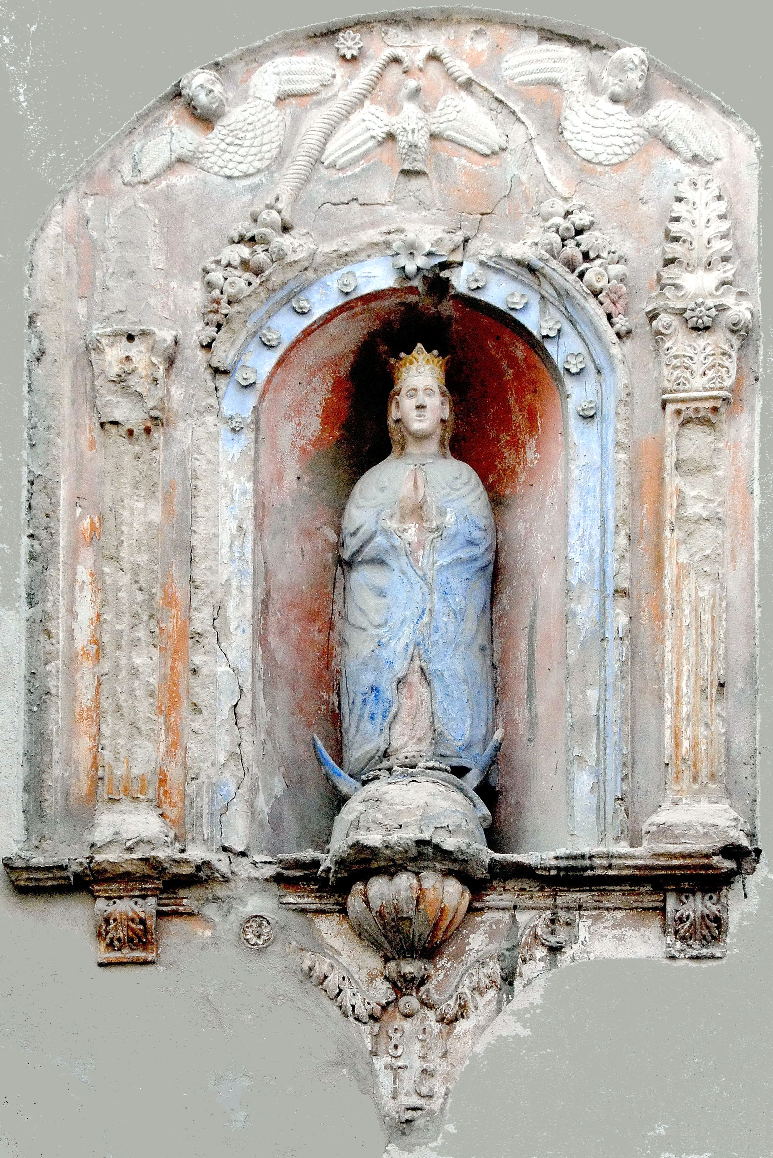 Statue of a crescent Madonna in a house wall`s alcoven on the main road in the community Amaro, region Friuli Venezia-Giulia, Italy